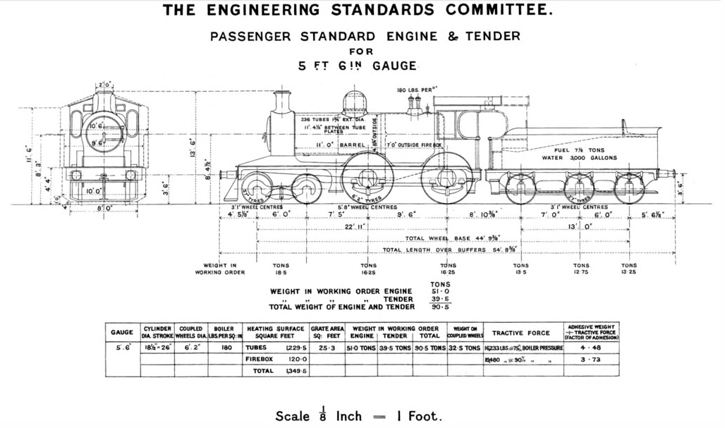 Passenger Standard Engine & Tender for Broad Gauge